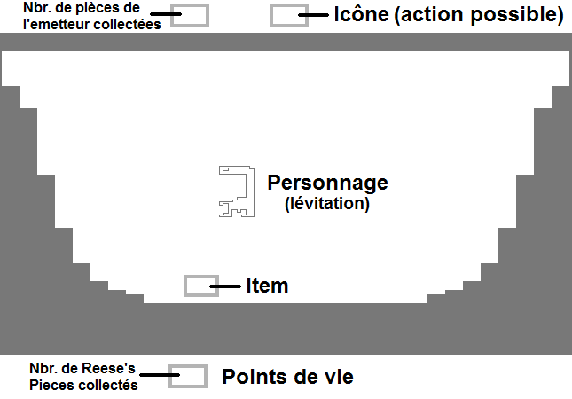 Interface of the video game E.T. the Extra-Terrestrial (1982)